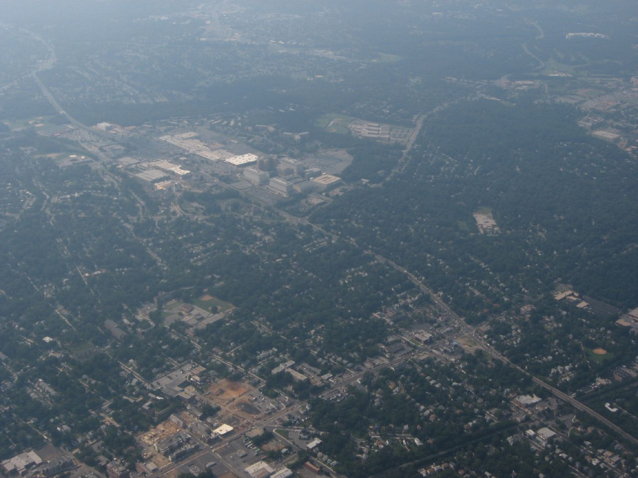 Prince George's Plaza, Hyattsville, Maryland